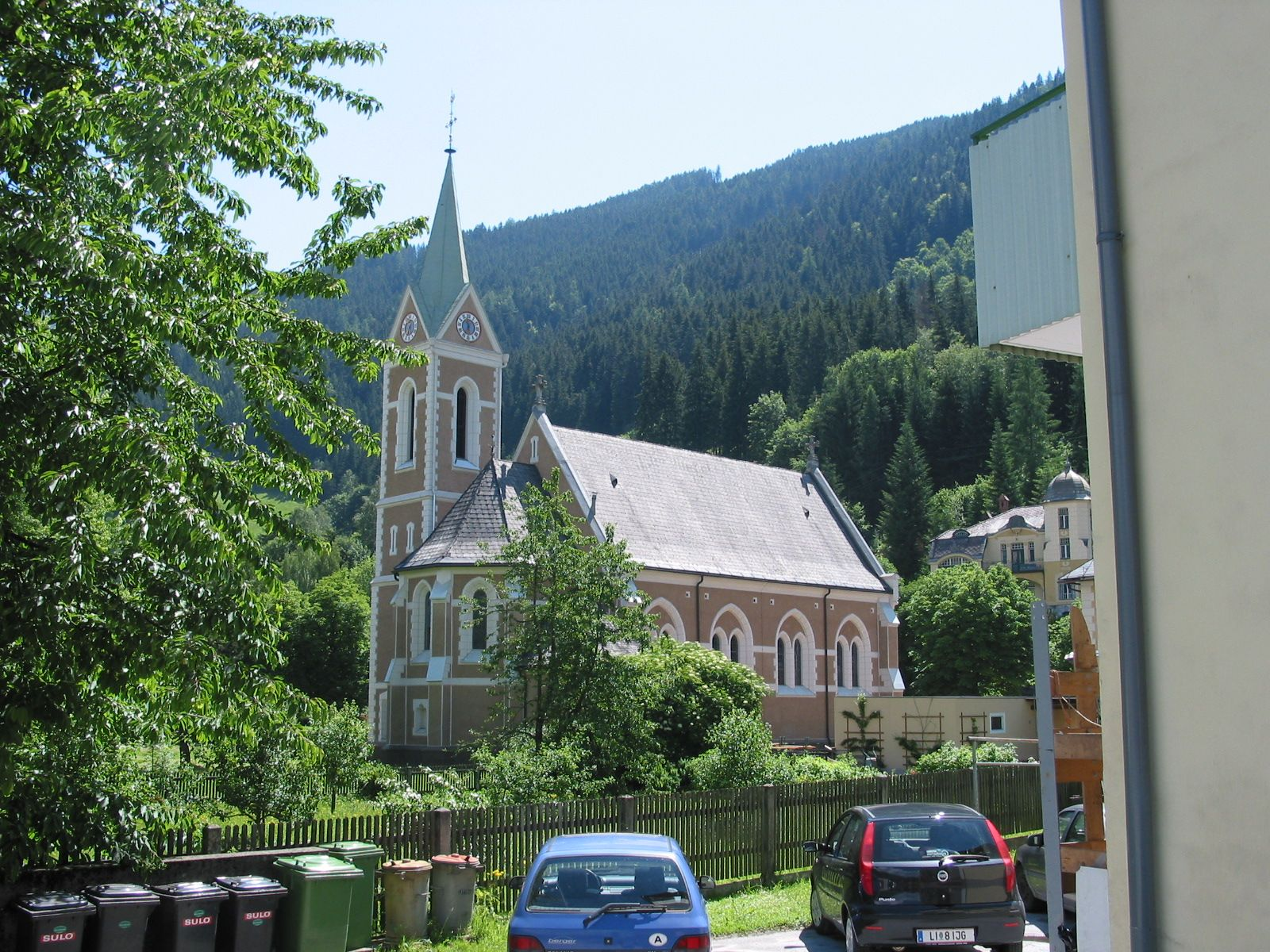 Church of Selzthal